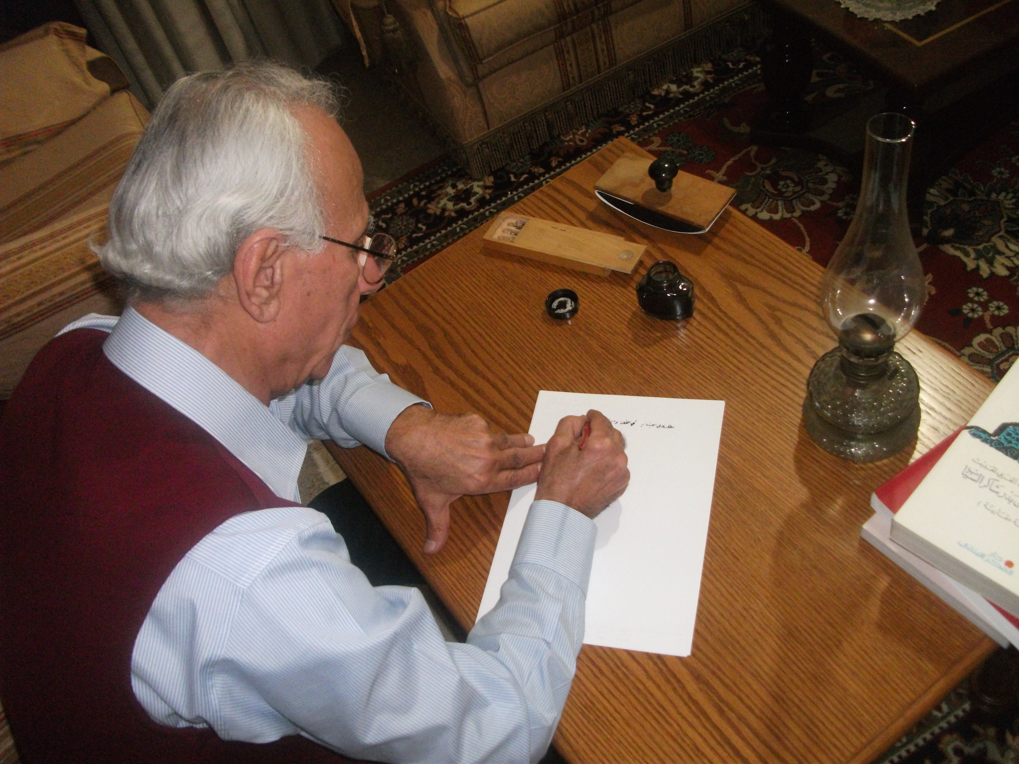 Writing a poem